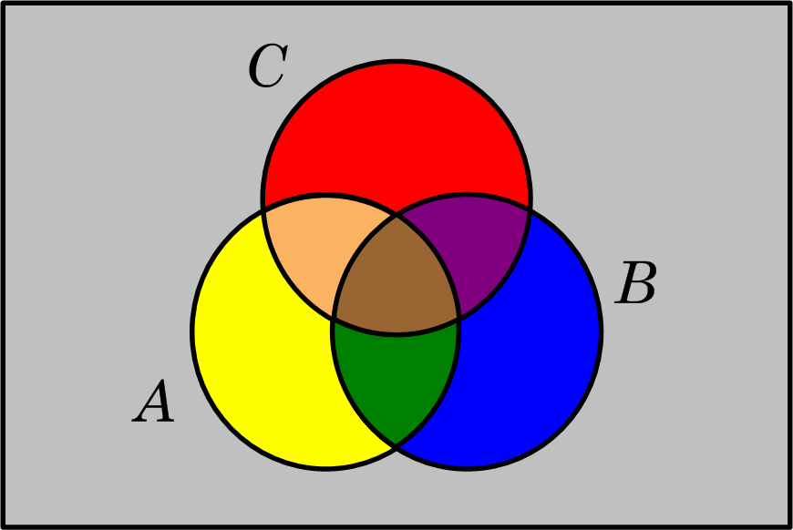 Diagrama de Venn - 3 conjuntos